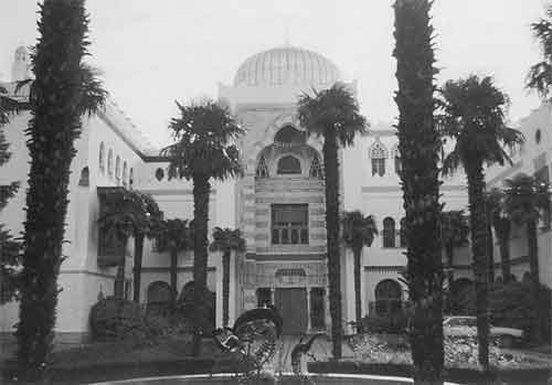 View of the Crimean palace Dyulber.